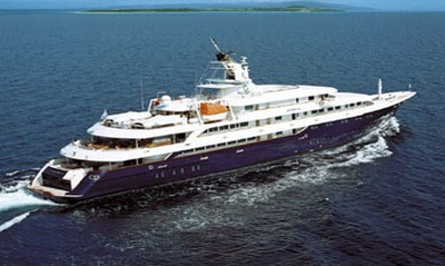 Luxury yacht O'Mega underway. Note the correct spelling of the name.